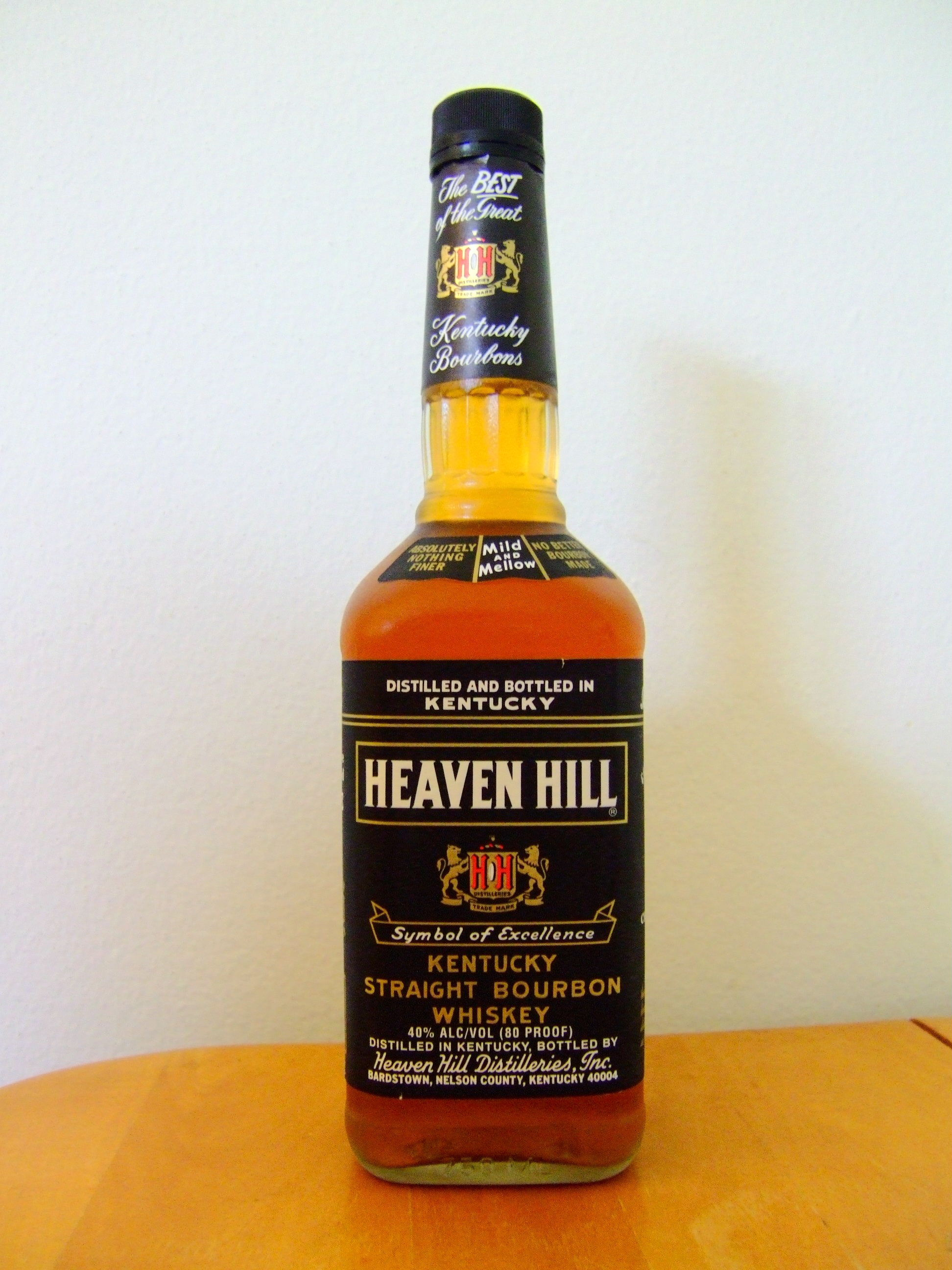 A bottle of Heaven Hill Bourbon. Self made photo.